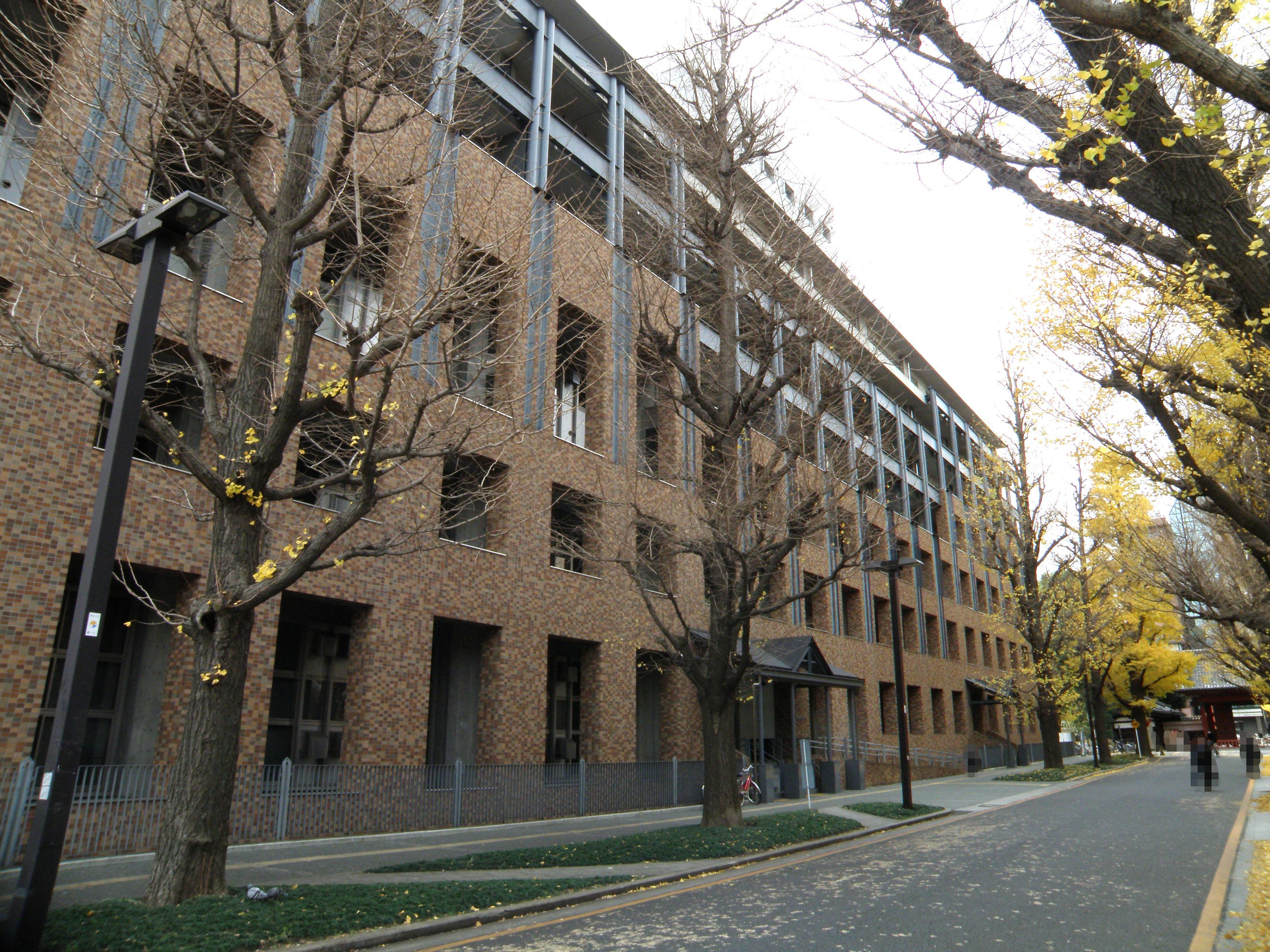 Akamon General Research Bldg. and Akamon, University of Tokyo.